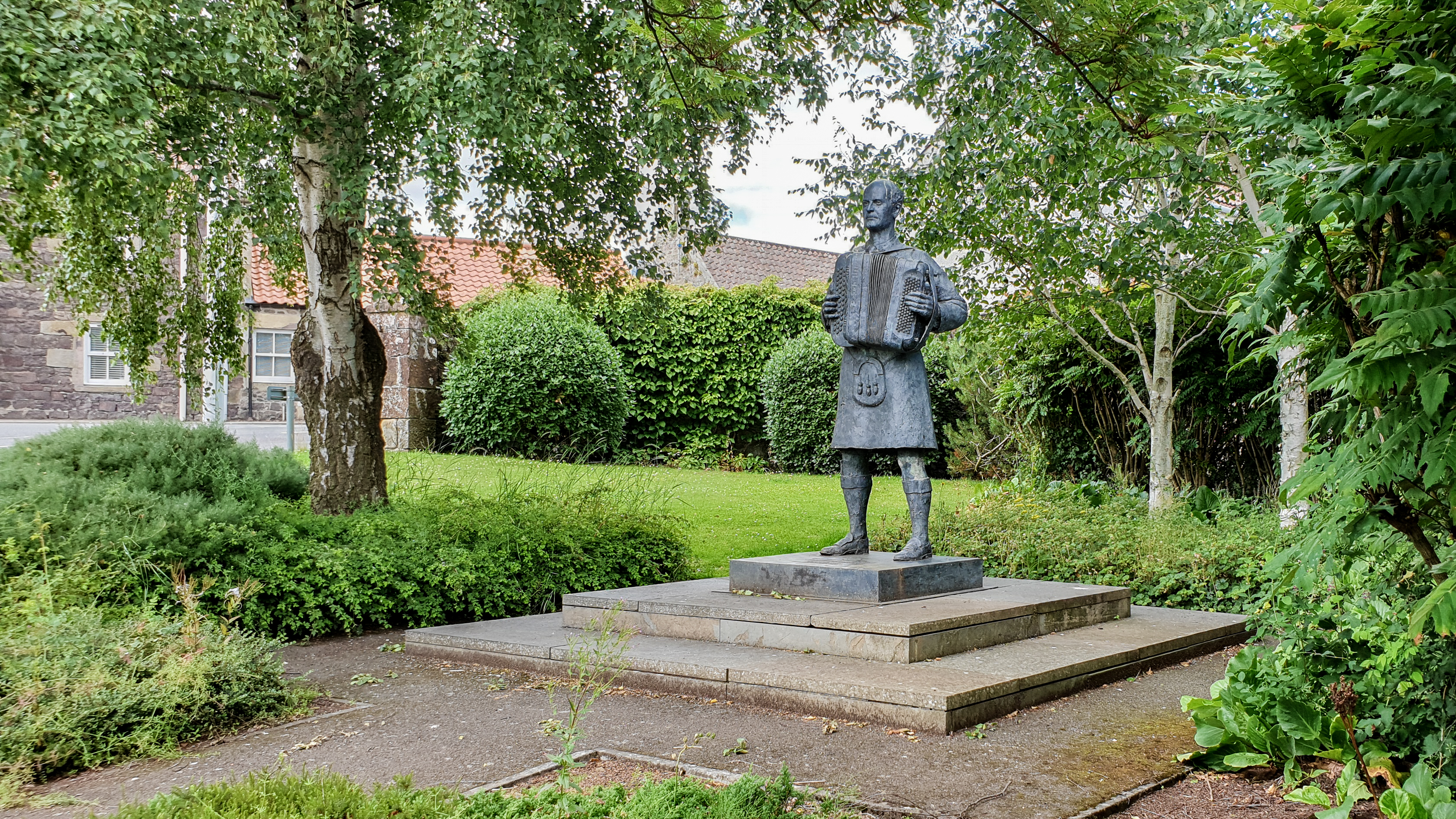 Statue of Jimmy Shand in Auchtermuchty, Scotland (wide angle)